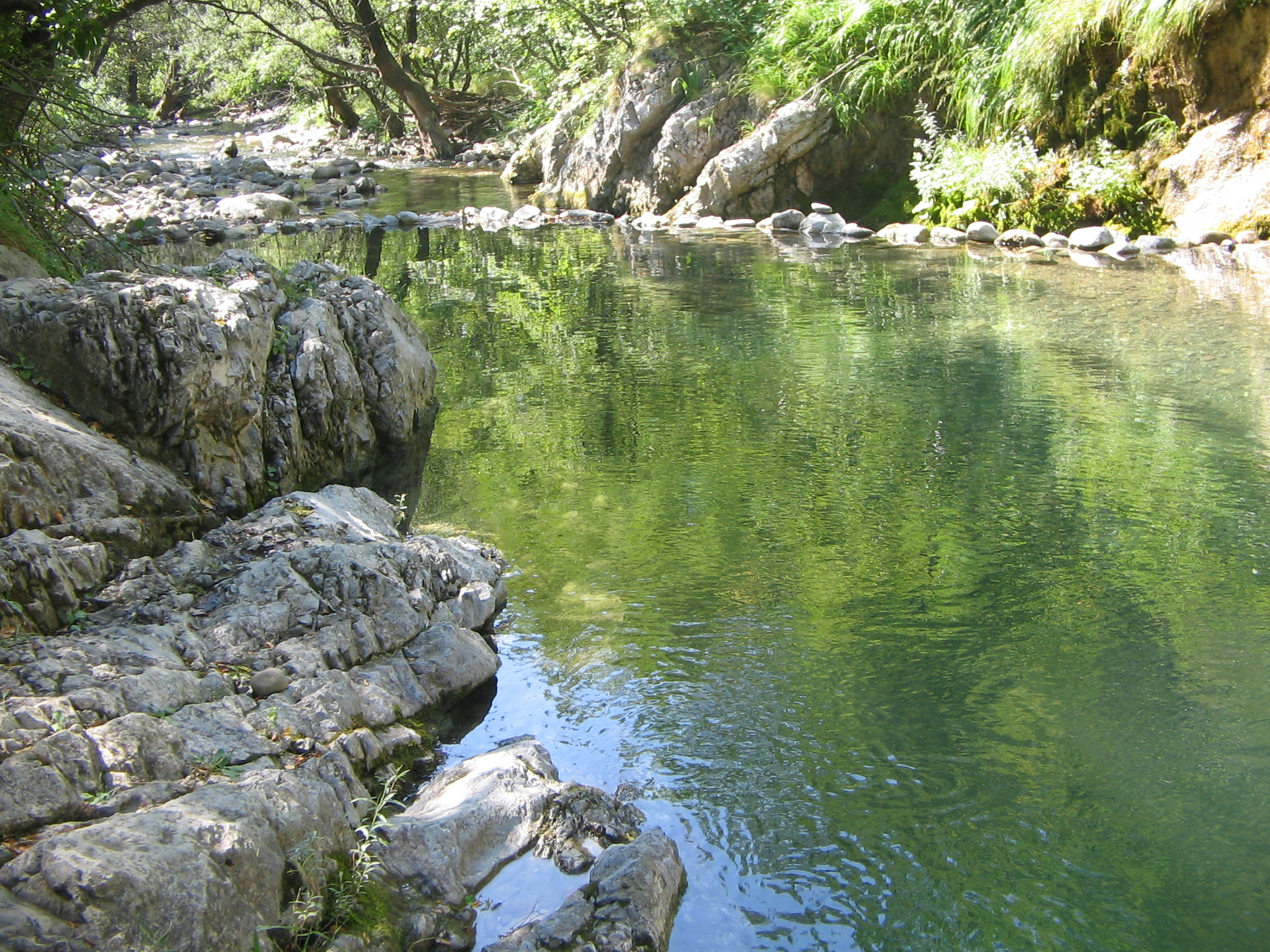 Leshnitsa River, Balkan Mountains